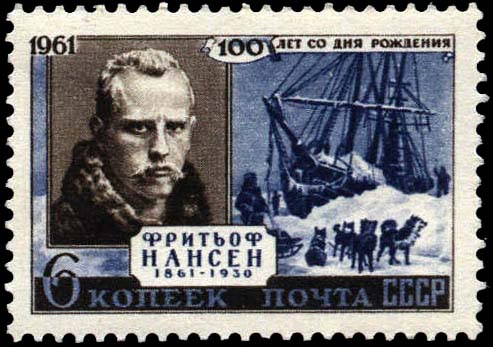 100th annivesary of Fridtjof Nansen. Post of USSR 1961. Painter L.Zavialov.